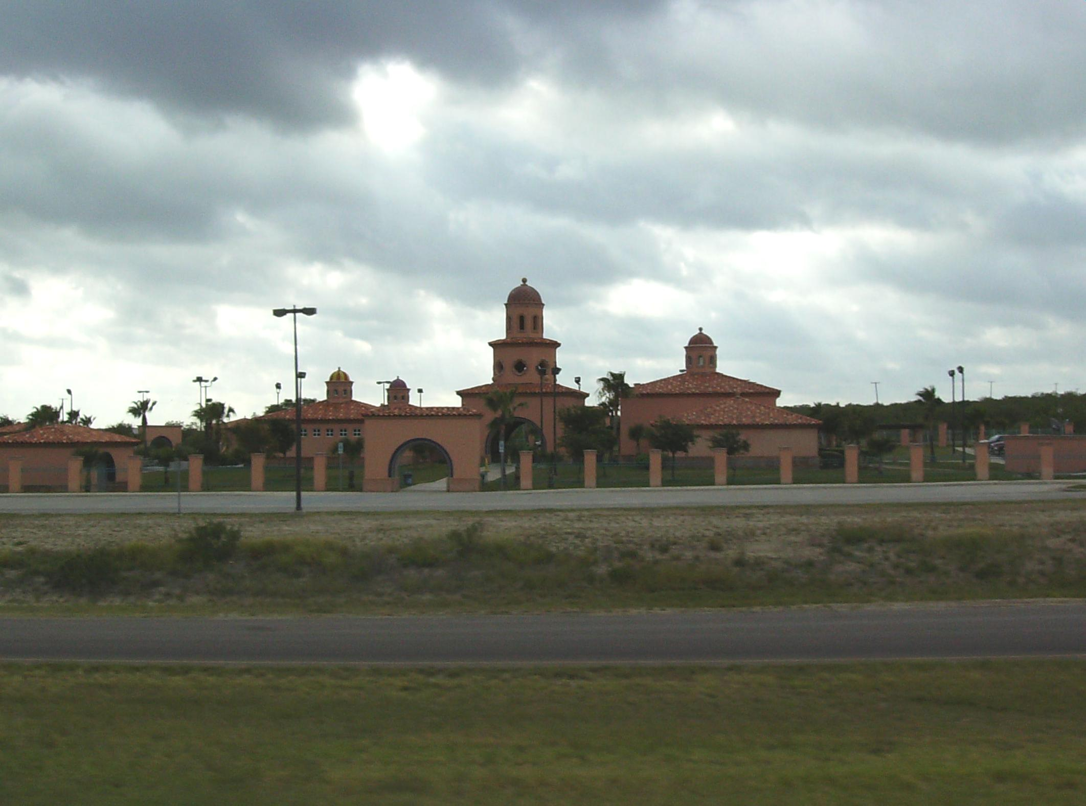 Texas Travel Information Center in Laredo, Texas @ I-35 / US 83 Intersection